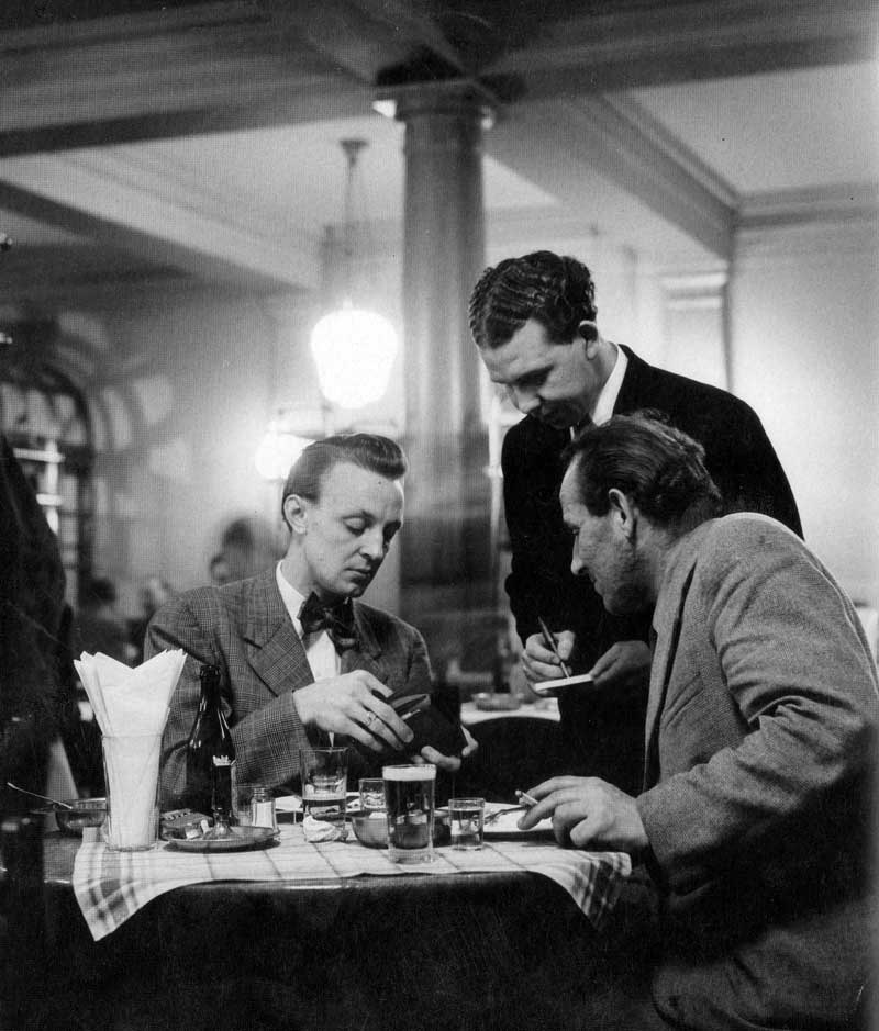 Scene from restaurant i Klara, Stockholm